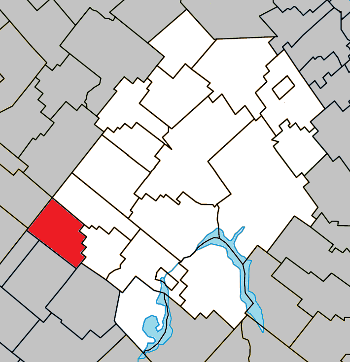 Location of Saint-Fortunat, Quebec within Les Appalaches Regional County Municipality.